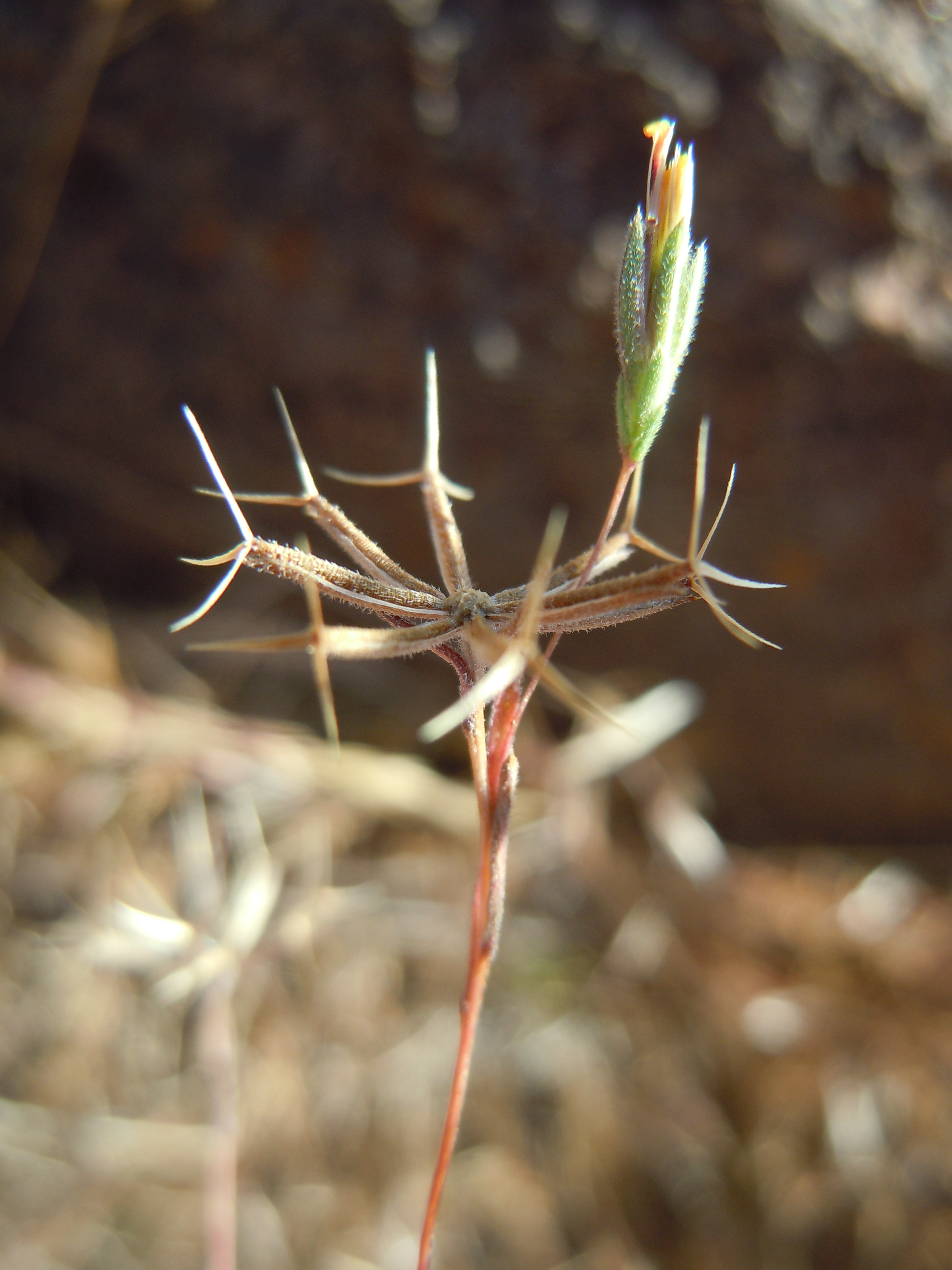 This annual is common in the sagebrush steppe of this area and is uncommon in adjacent roadsides and other disturbed areas.